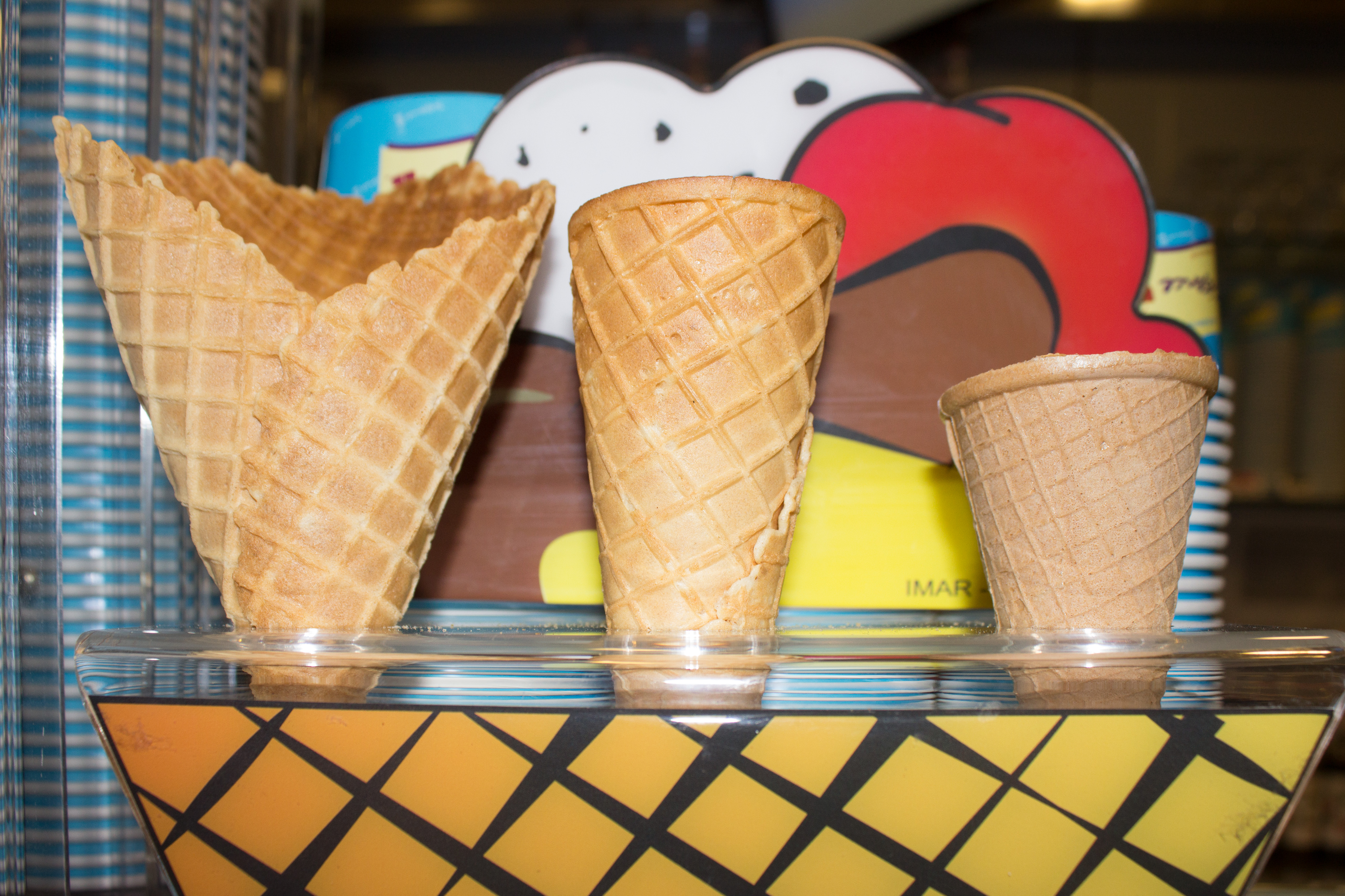 This is an image of food from Ghana